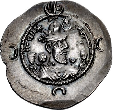 Coin of the Sasanian king Khosrow I Anushirvan (cropped version), Veh-Andiyōk-Šābuhr (Gundeshapur) mint.